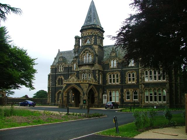 Grey Towers. Built in the 1860s by Middlesbrough ironmaster William Randolph Innis Hopkins who was later made bankrupt as a result of the Tay Bridge disaster in 1879 (his firm built the bridge). For twenty years Grey Towers was lived in intermittently until it brought by Sir Arthur Dorman who lived in it for more than thirty years until his death in 1931. Grey Towers once more became vacant until used as the Poole Sanatorium (for Tuberculosis). Eventually the hospital was closed and by the 1990's it was virtually derelict. Now it has been restored and divided into executive flats and apartments.